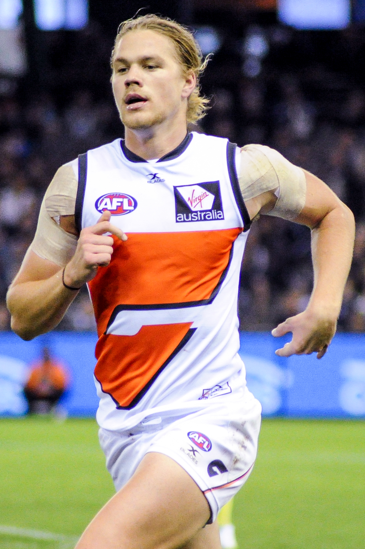 Harrison Himmelberg during the AFL round twelve match between Carlton and Greater Western Sydney on 11 June 2017 at Etihad Stadium in Melbourne, Victoria.